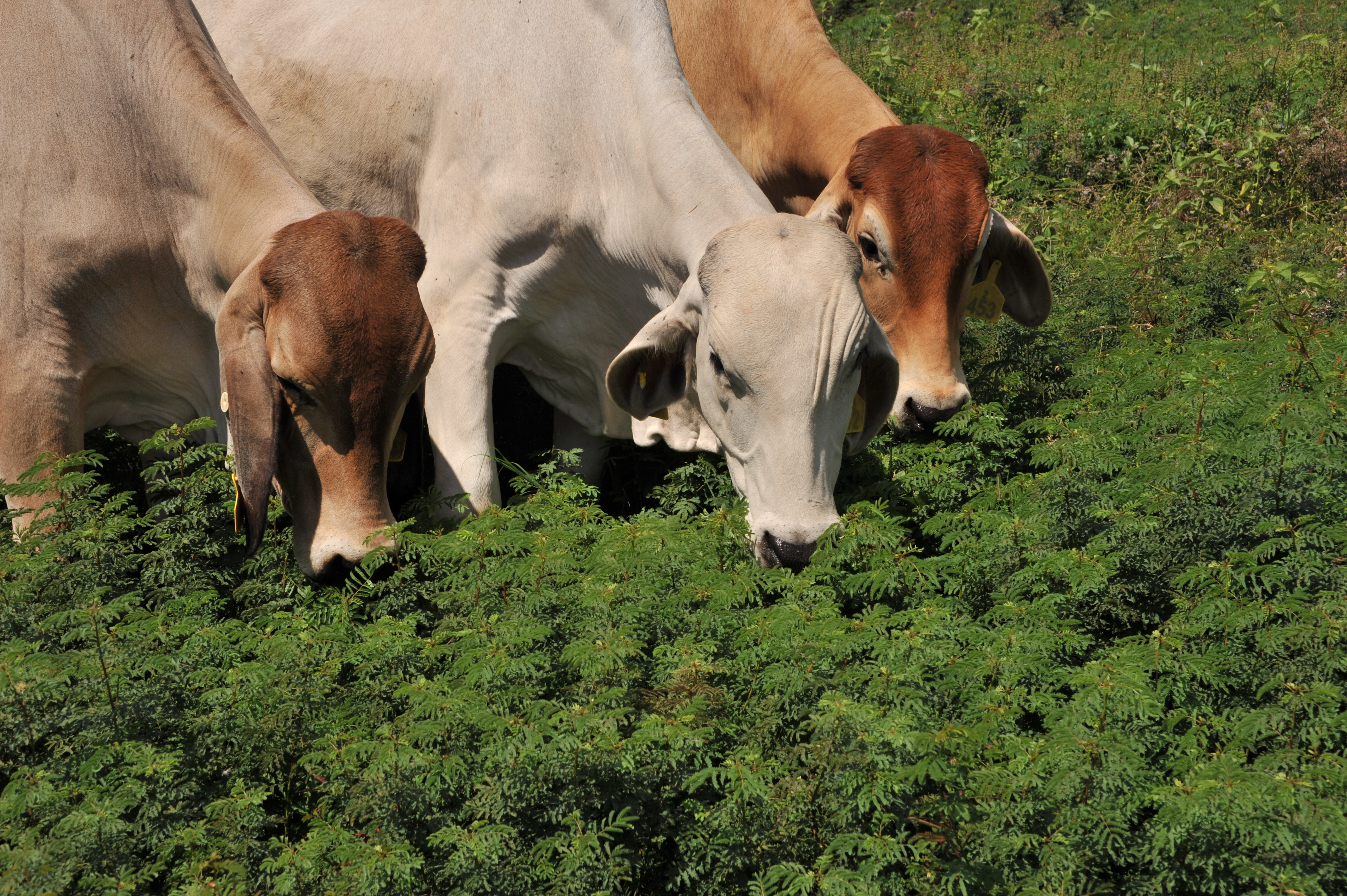 Cattle grazing Progardes Desmanthus at Townsville, North Queensland